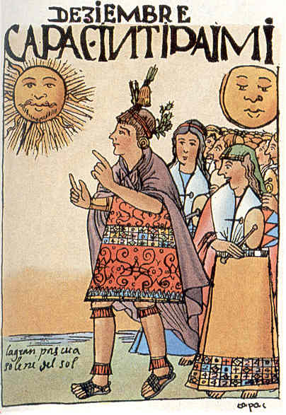 Cápac Inti Raymi, the festival of summer solstice